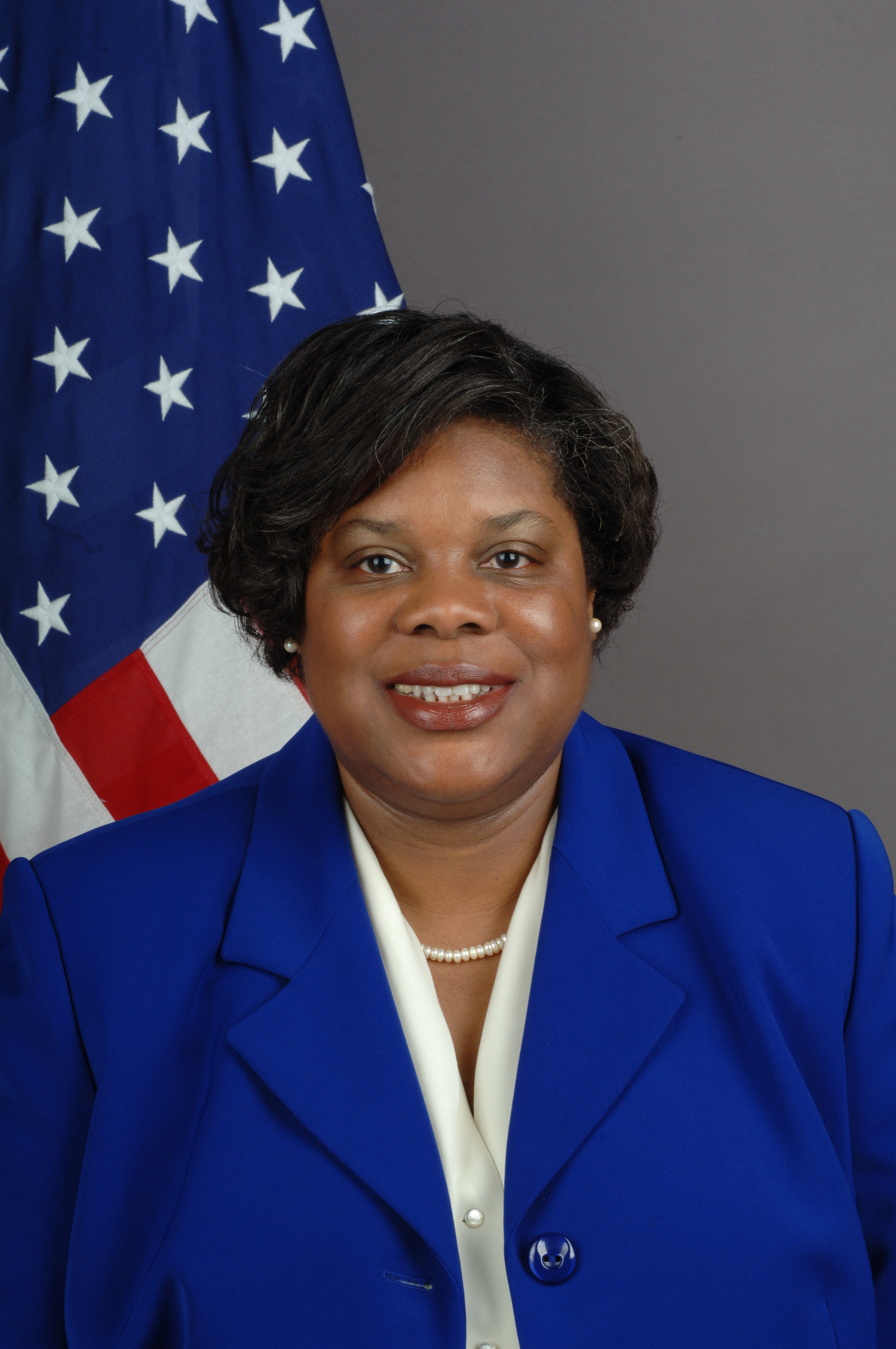 Bernadette M. Allen, U.S. Ambassador to Niger. Official photo from United States Department of State: Biography of Bernadette M. Allen.